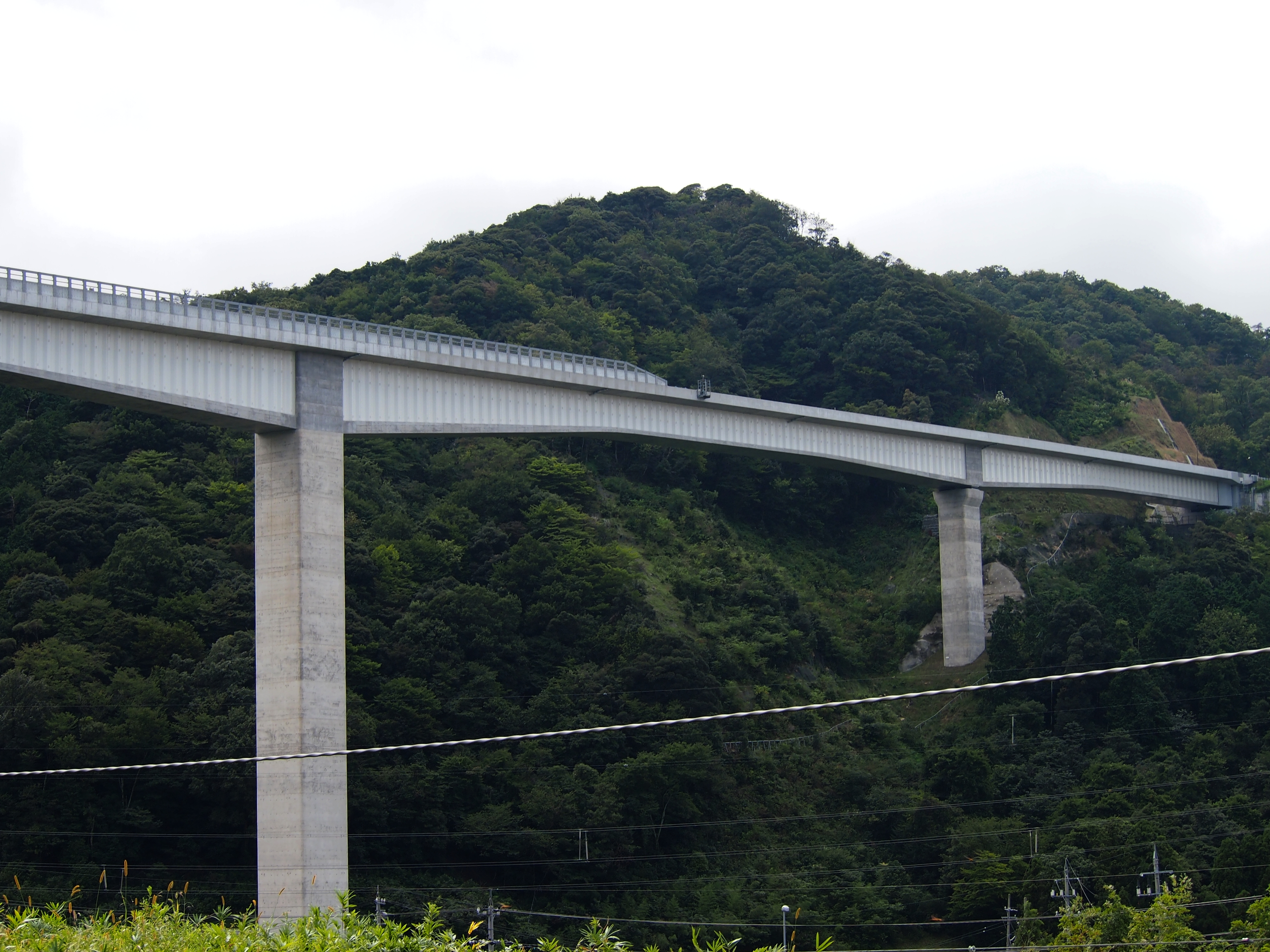 Mt. Kinukake is in Tsuruga. Big bridge is Tsuruga Kinukake Ohashi of Maizuru-Wakasa highway.